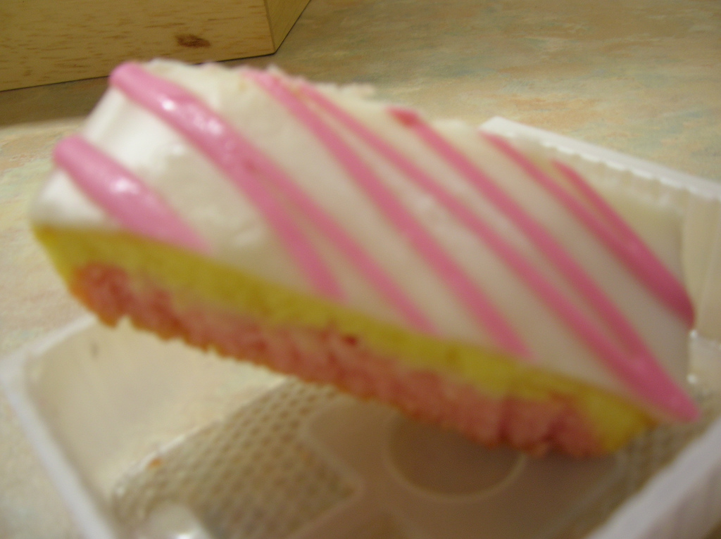 angel cake slice yummy